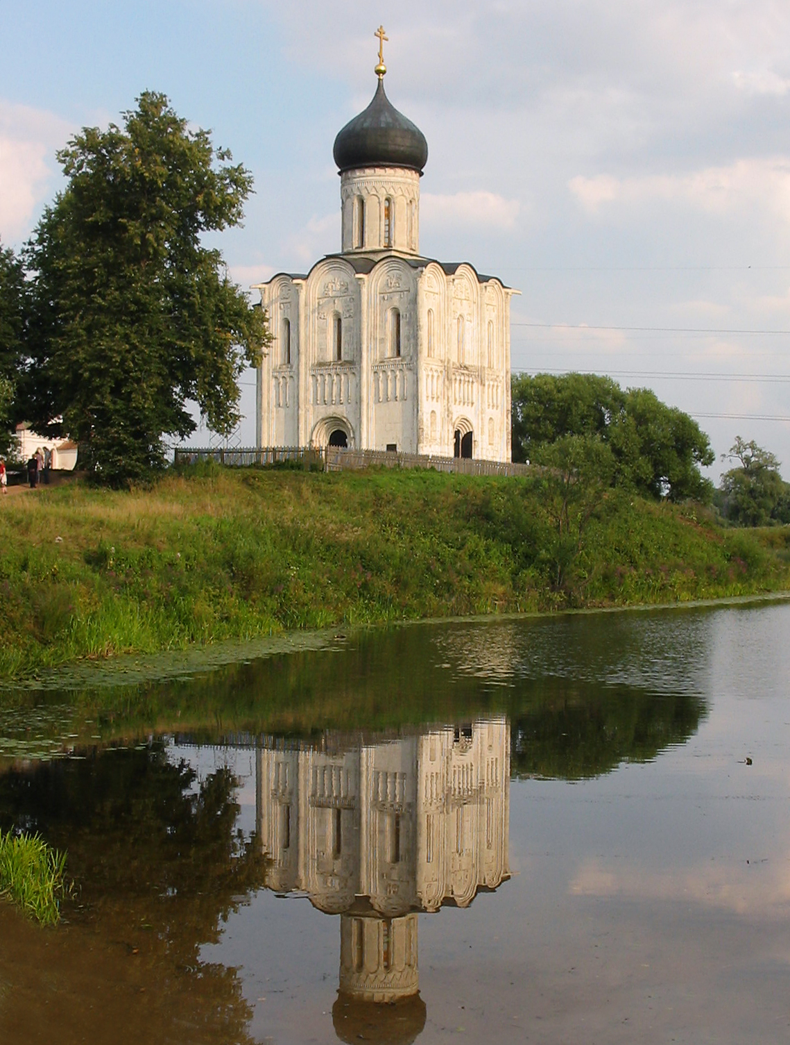 Church of the Intercession on the Nerl (about 1160), Bogolubovo, Vladimir region